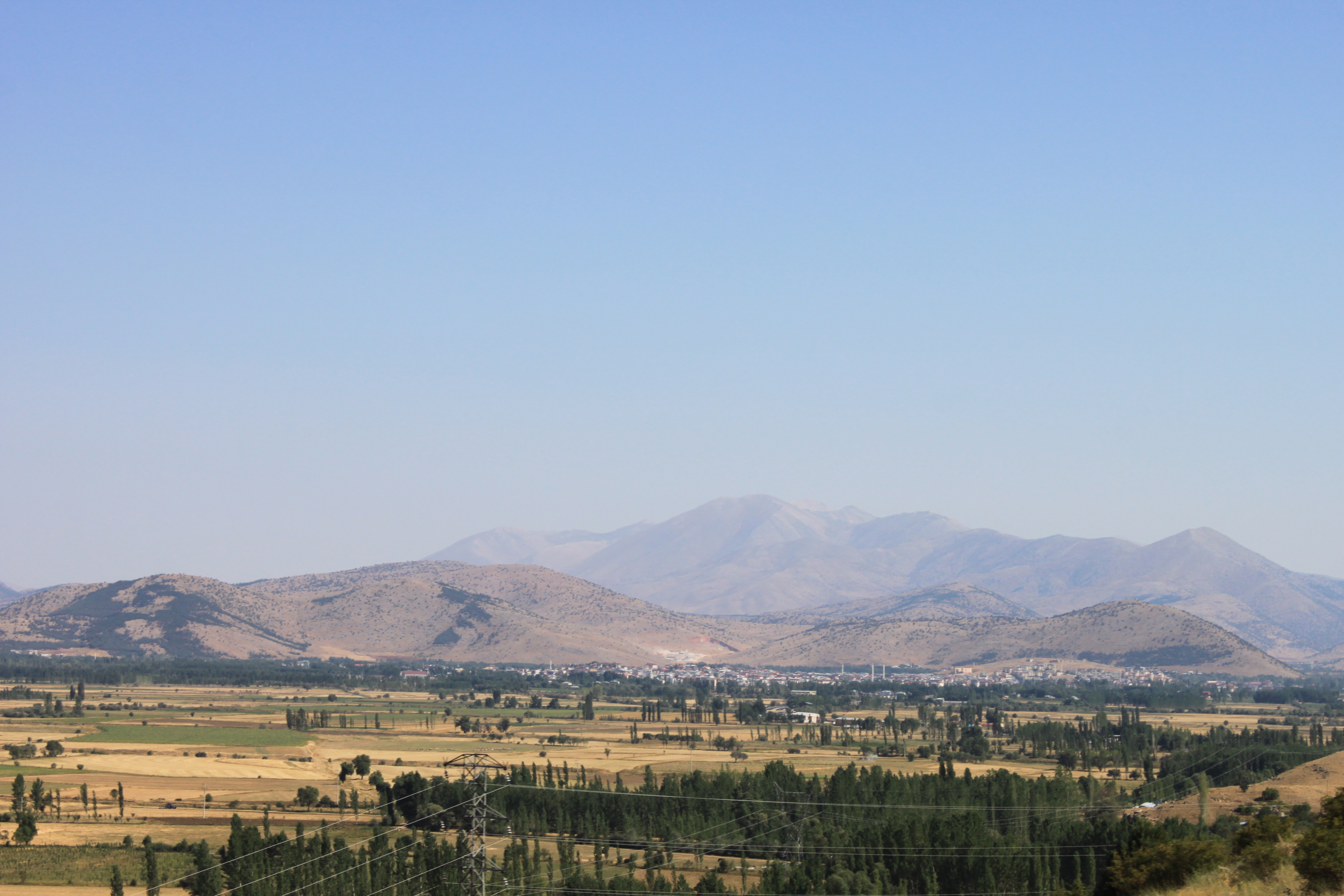 Göksun, Kahramanmaraş province, Turkey, from the east.